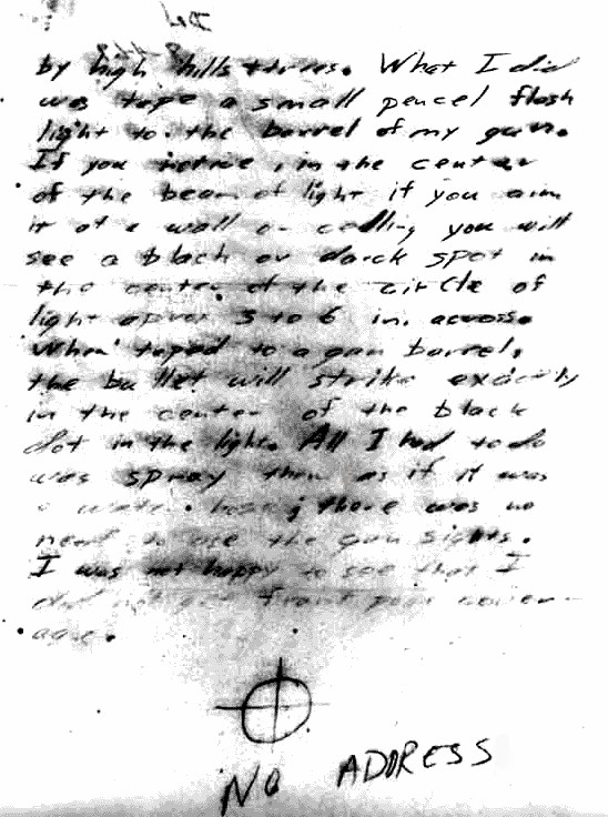 Page 2 of the Zodiac Killer's August 4th 1969 letter to the San Francisco Examiner